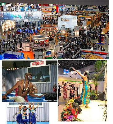 JATAWTF2008